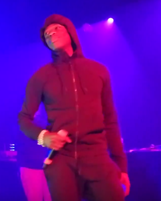 J Hus performing in Copenhagen on Jan 9, 2018